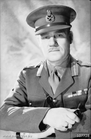 Portrait of VX63396 Lieutenant General John Northcott CB MVO, Chief of General Staff, Australian Military Forces.